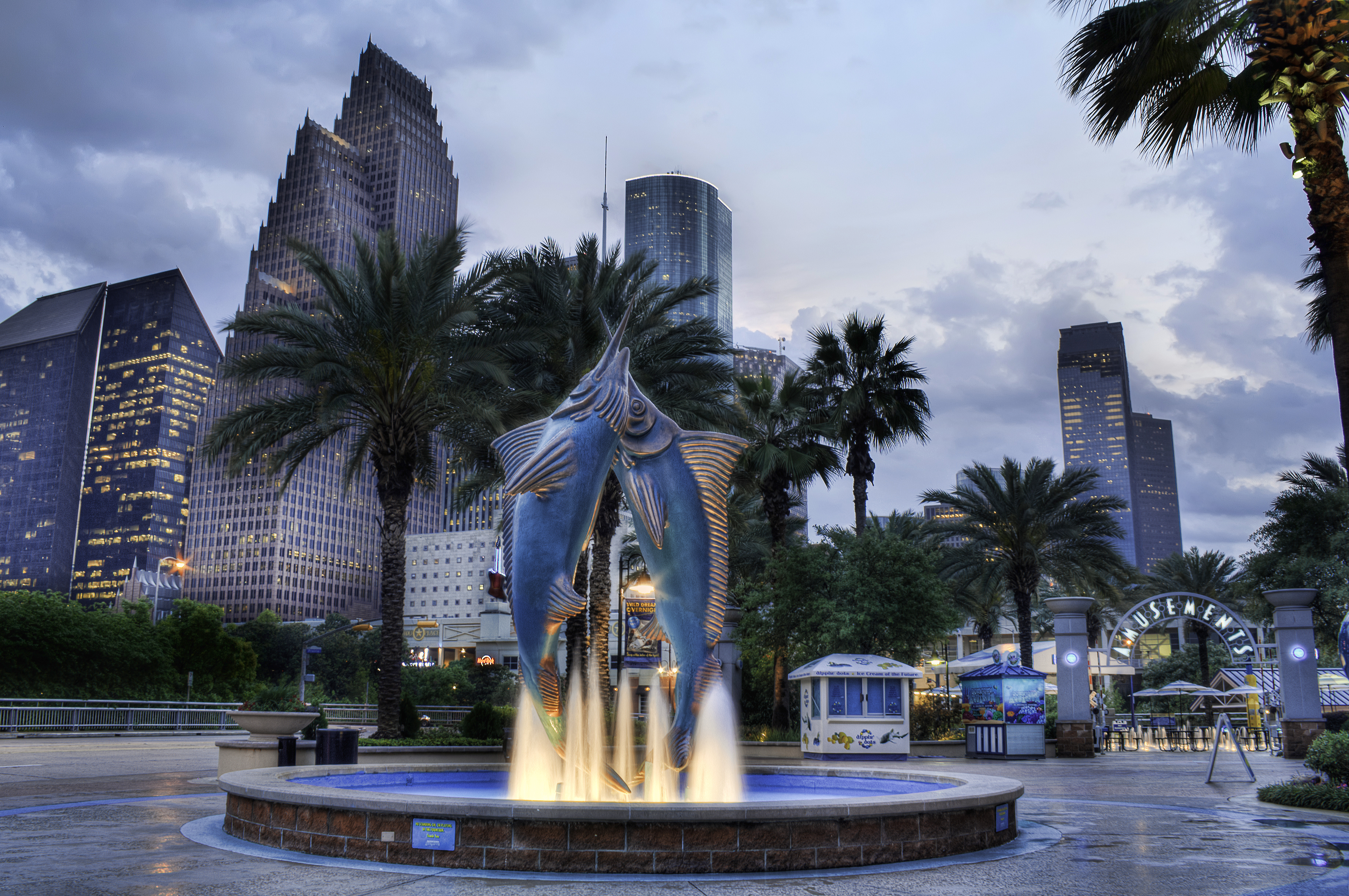 An image of the Downtown Houston Aquarium, taken in 2012, and uploaded from Flickr.